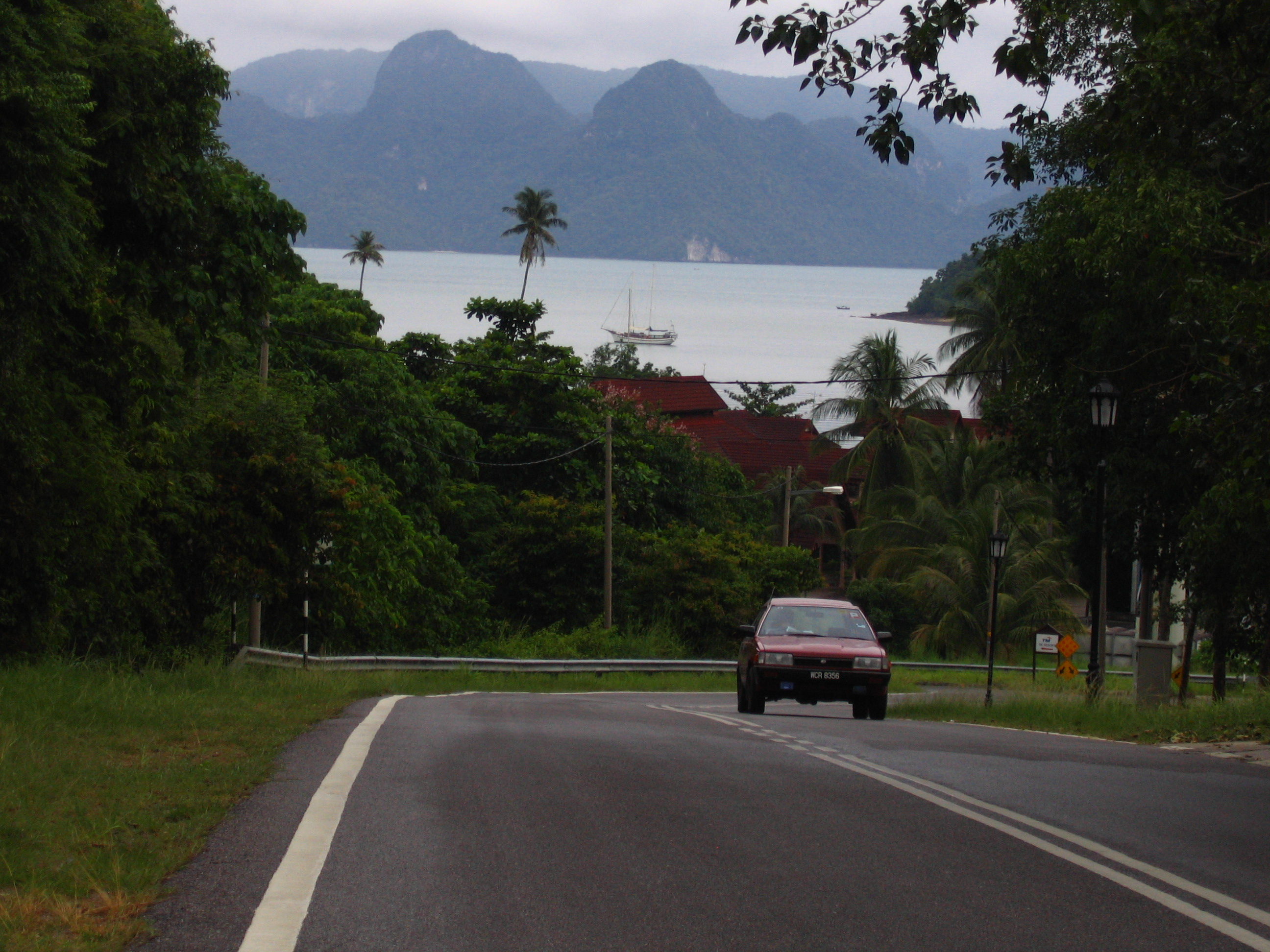 Long stretches of a Langkawi road in a beautiful nature backdrop. Shot by me on 22nd September, 2006. Photographer: Sadat Imtiaz Permission: Anyone can use it as long as they use the photographer's name in credit